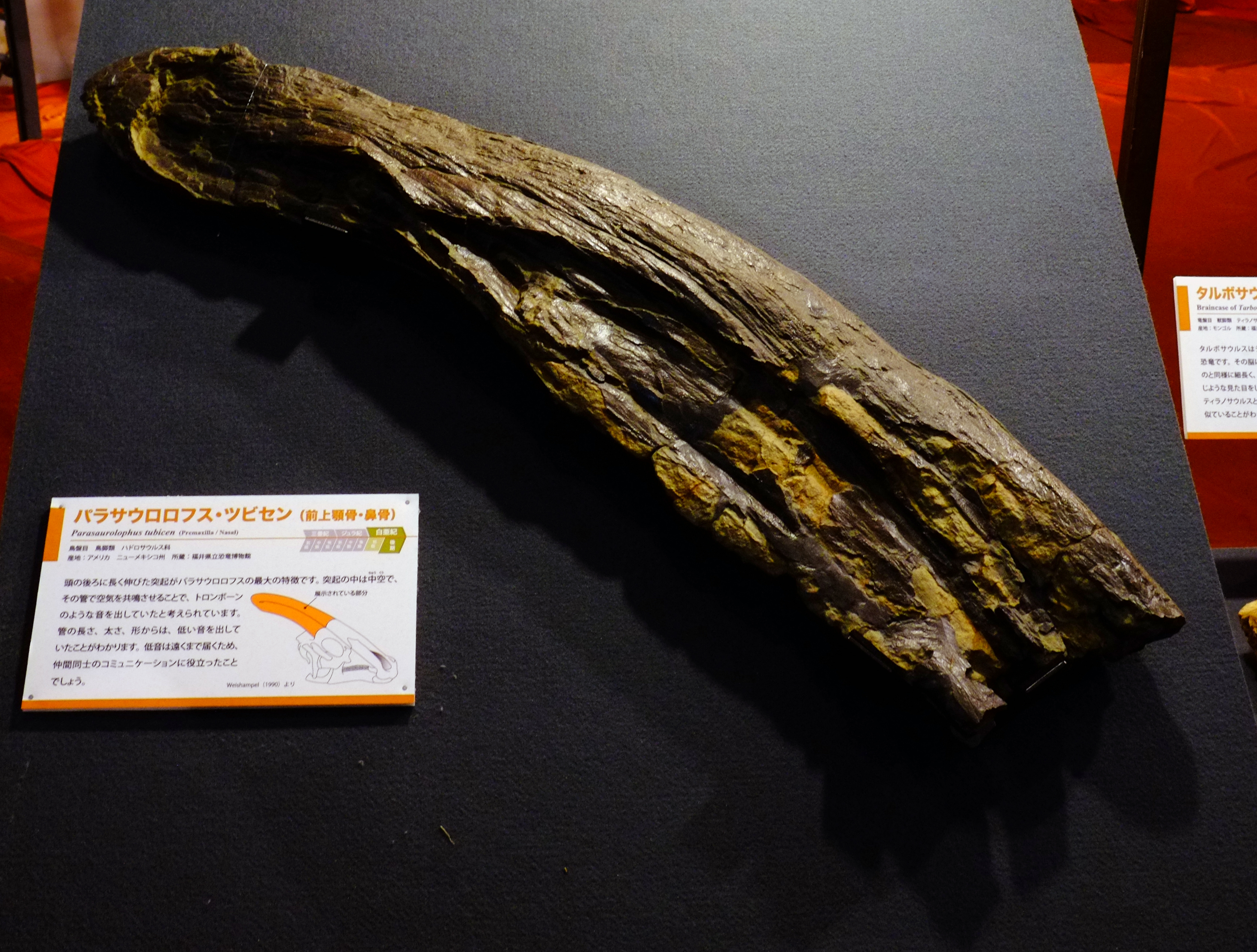 Parasaurolophus tubicen crest